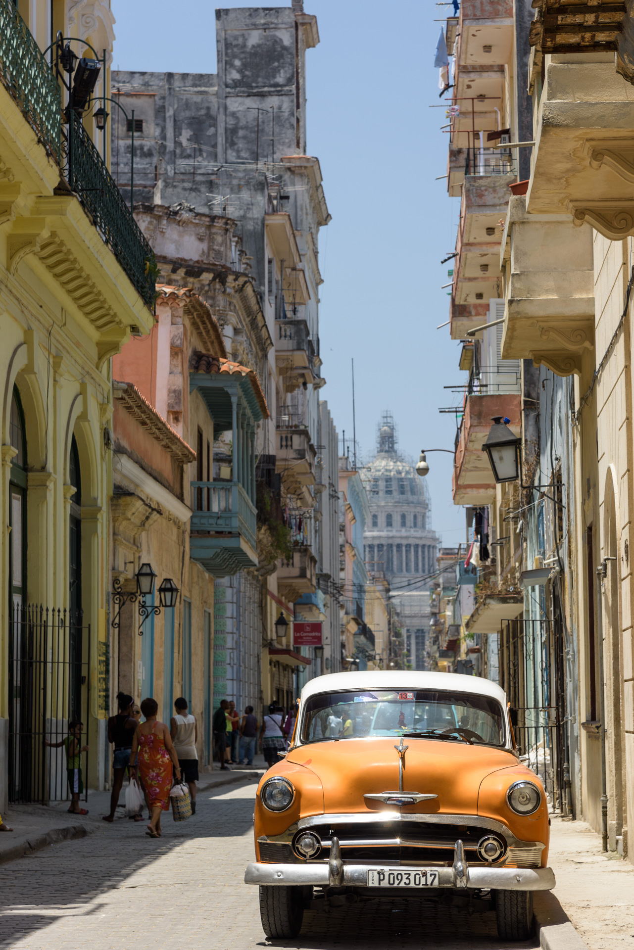 Typical street in old La Havana.